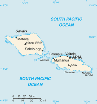 A political map of the nation of Samoa.